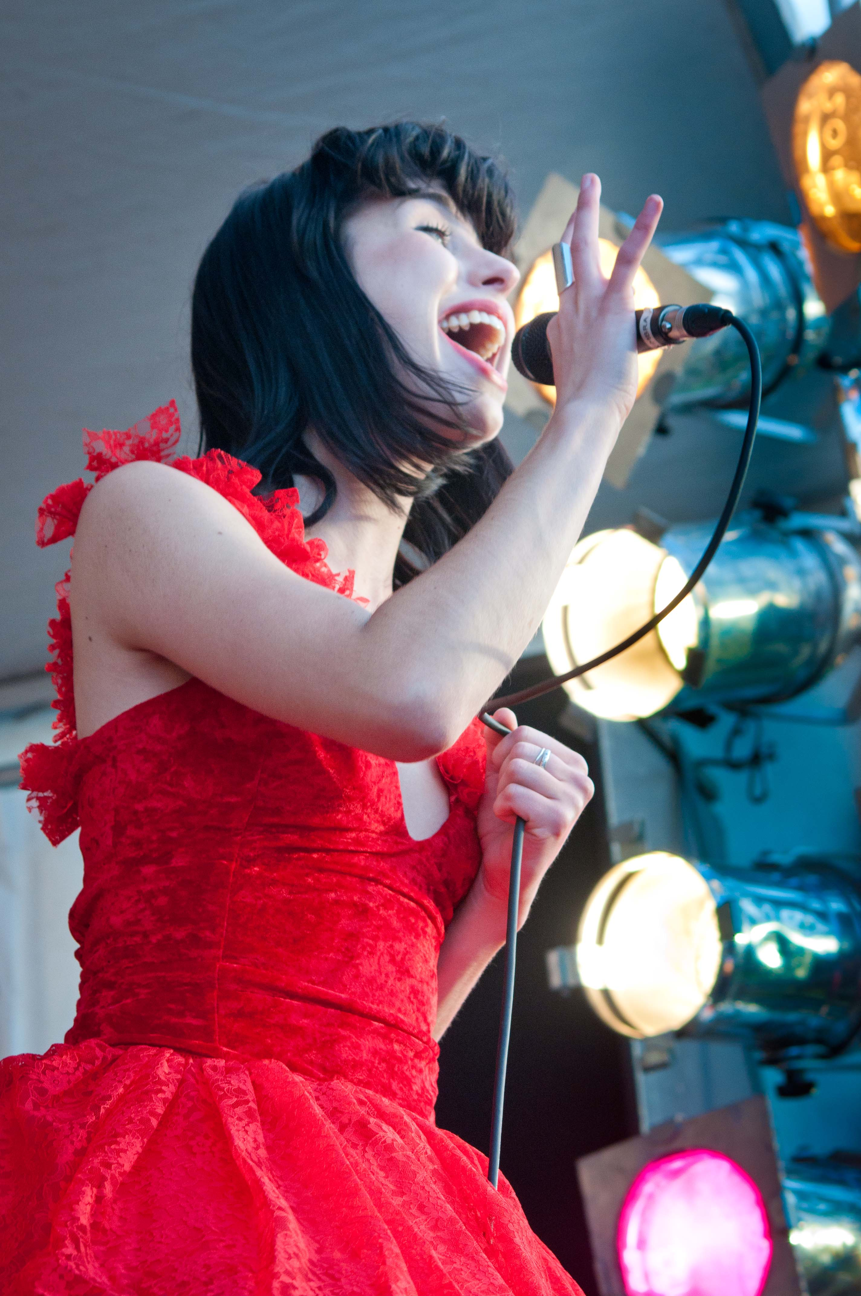 Kimbra Auckland New Zealand Anais Chaine Photography